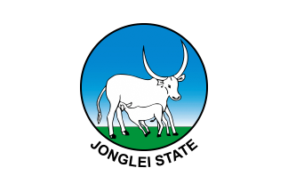 State flag of Jonglei in South Sudan and formerly Sudan.